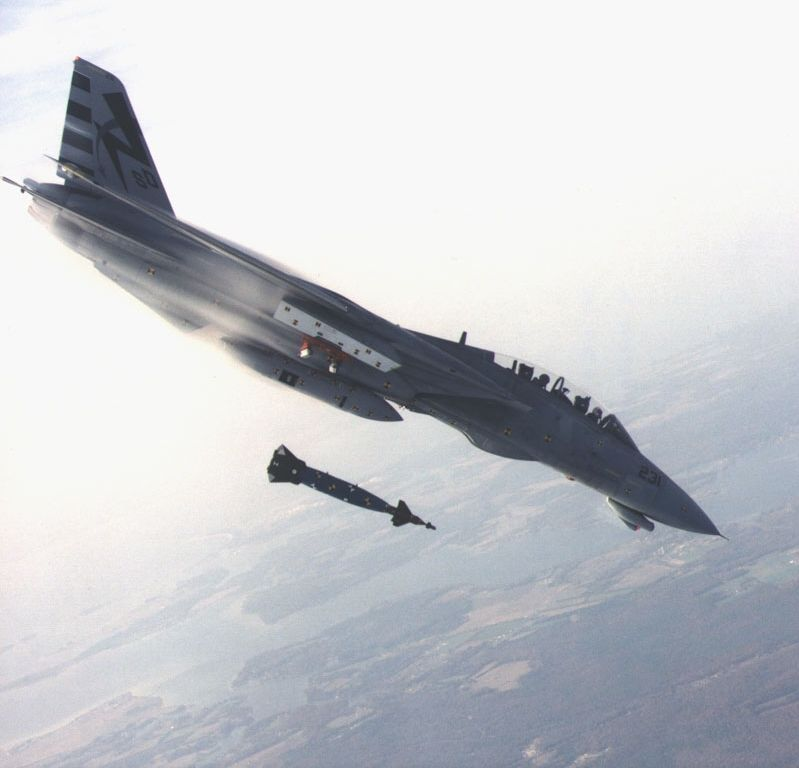 An F-14D Tomcat from the Naval Air Warfare Center at Patuxent River conducts a test drop of laser-guided bomb in a dive.